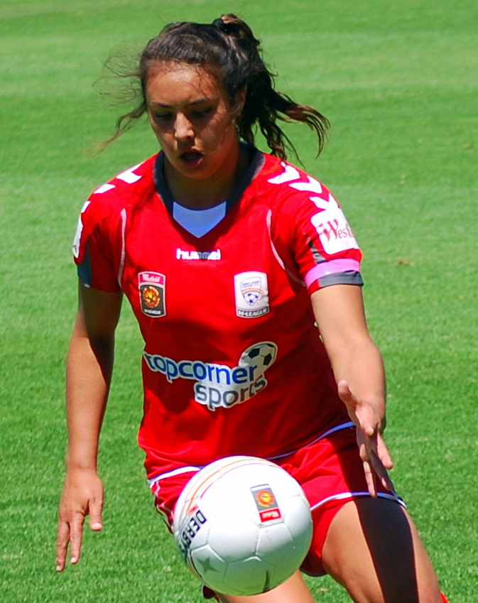 Wallace taking Perth Glory (2010)